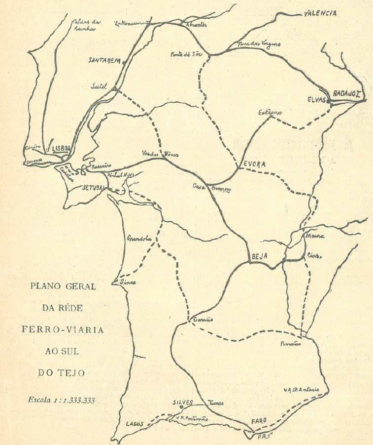 Map of the Plano Geral da Rede Ferroviaria ao Sul do Tejo (general plan of the railways on south of the Tagus river), in Portugal, published by a decrete of the 27th November 1902. The thick continuous lines show the railways already built, and the discontinuous lines represent the planned ones. The planned railways were the continuation of Sado Line from Setúbal to Garvão, the original plan of the Sines line originating in Grândola, the Baixo Alentejo line that would connect the São Domingos mines to the rail network, the continuation from the right bank of the Arade river to Lagos and from Faro to Vila Real de Santo António, the Serpa branch line that would unite Pias to the São Domingos mines, the Reguengos branch line to Moura, the Mora branch line to Ponte de Sor, the Vendas Novas Line, the Seixal branch line, and the Vila Viçosa branch line. This image was published on the Gazeta dos Caminhos de Ferro magazine no. 359, of the 1st December 1902, and scanned by the Hemeroteca Municipal de Lisboa.